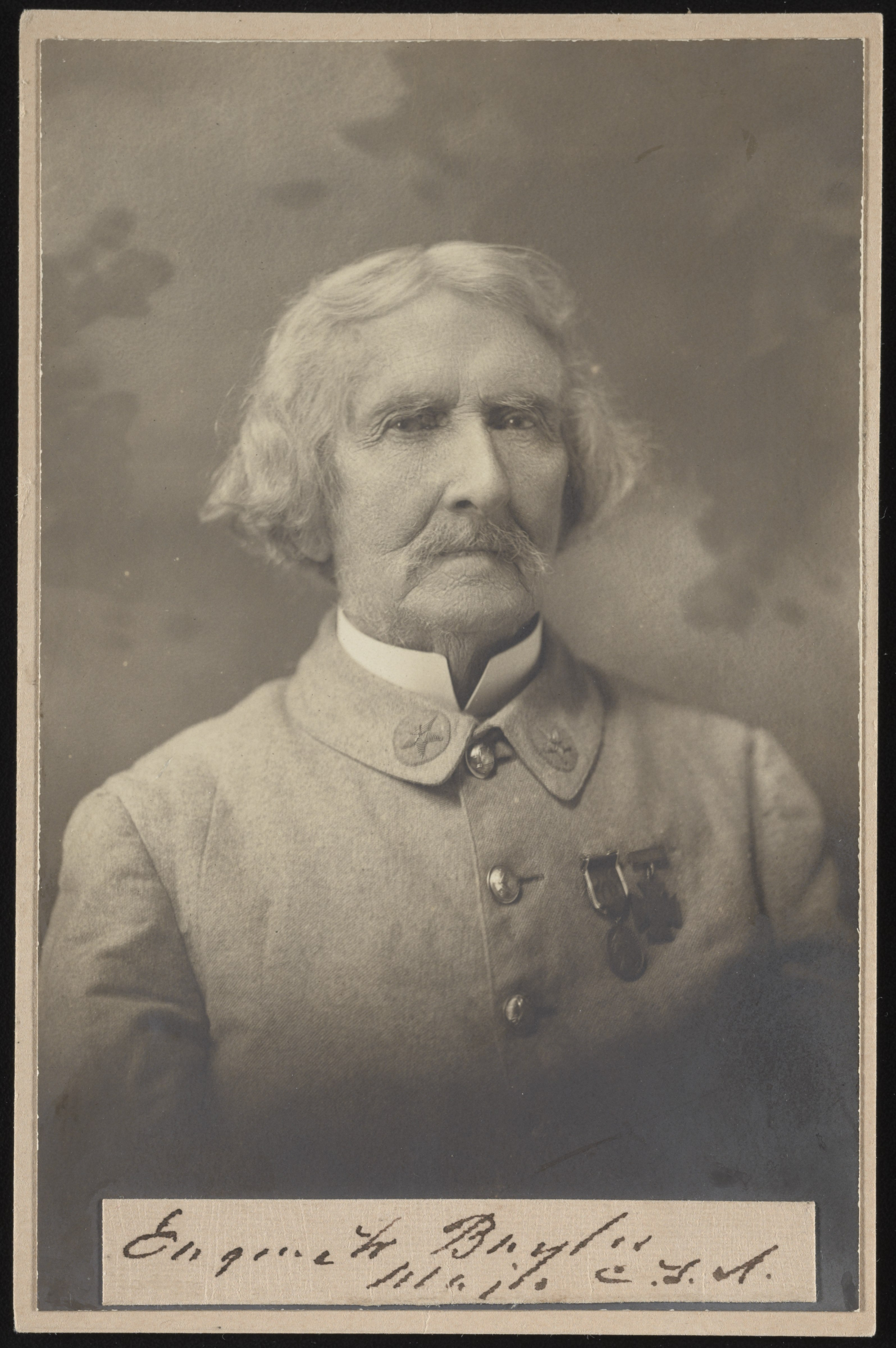 Title: Civil War veteran Eugene Wythe Baylor Abstract/medium: 1 photograph : print ; sheet 15 x 10 cm, mount 15 x 10 cm.